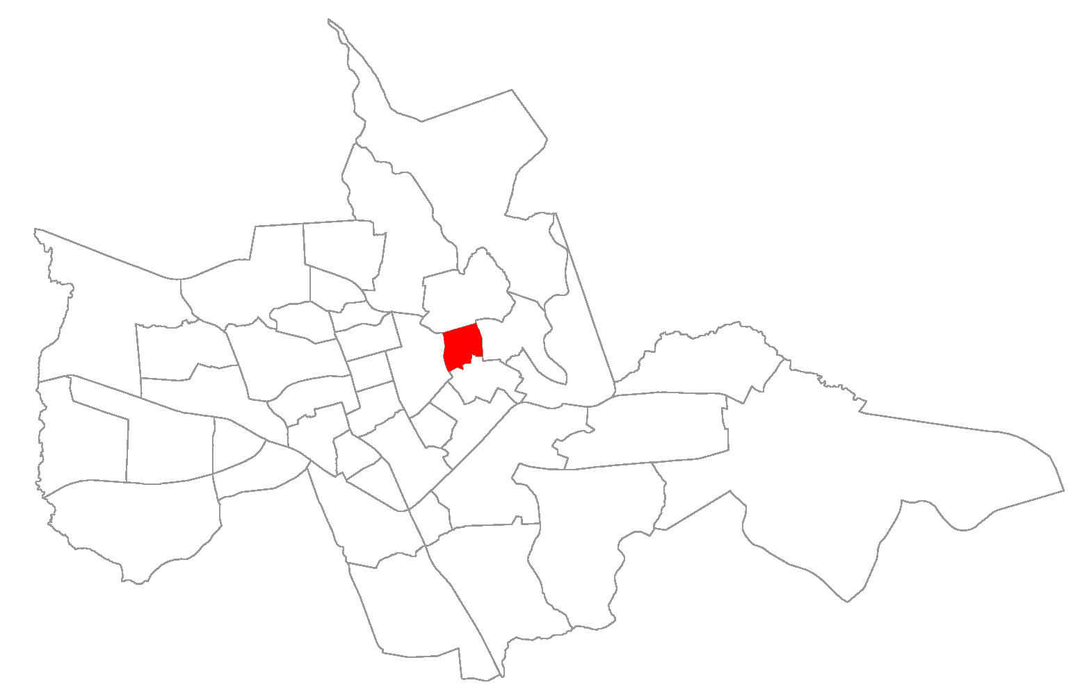 neighborhood/district of Santa Maria, Rio Grande do Sul